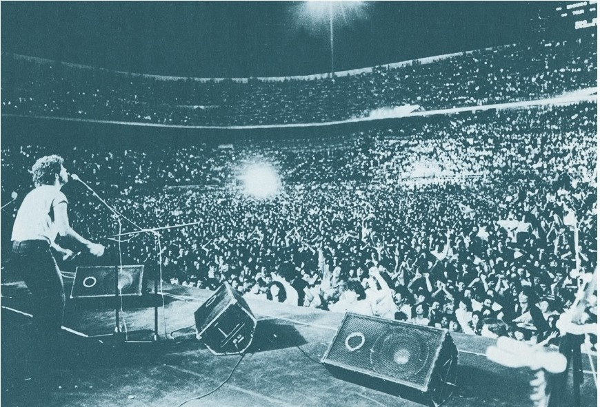 Edoardo Bennato San Siro stadium concert 1980